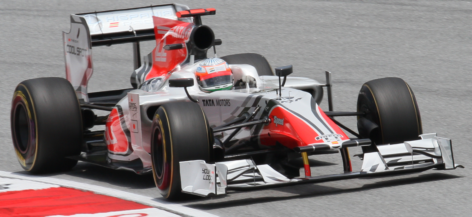 Formula One 2011 Rd.2 Malaysian GP: Narain Karthikeyan (HRT) during the third practice session on Saturday.